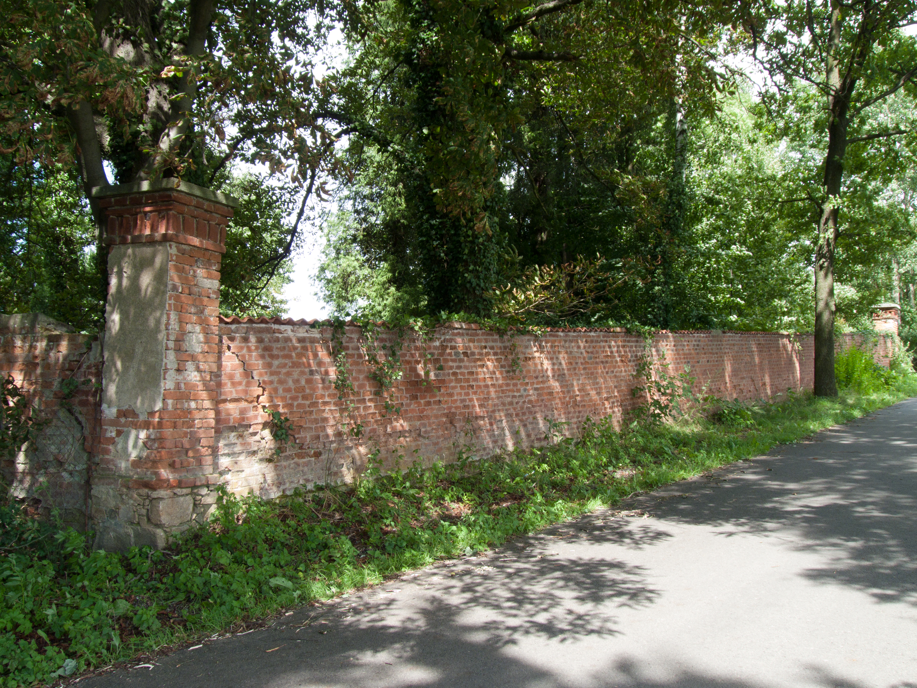 Wall of the Jewish cemetery in the town of Nová Včelnice, Jindřichův Hradec District, Czech Republic